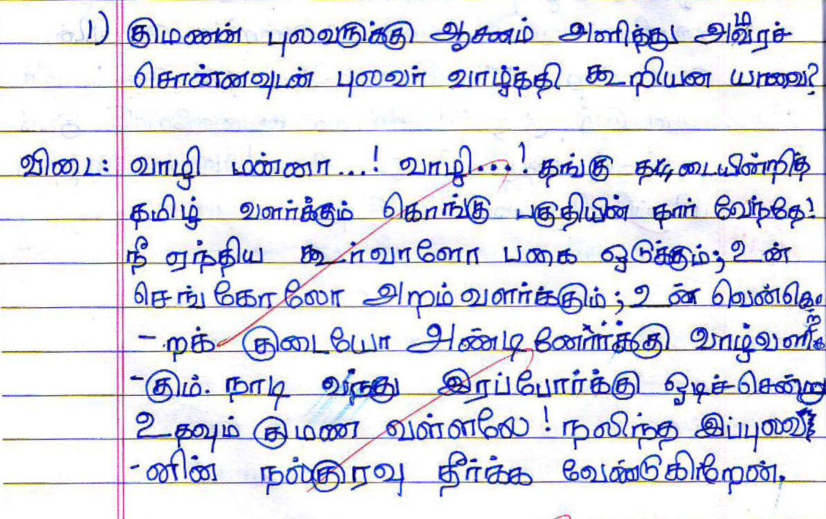 Scanned image (cropped) of a page from the notebook of a primary school student Ezhil. This shows hyphenation in Tamil text as also how Ezhil has taken extra effort to avoid hyphenation in certain positions, thereby meeting the traditional logic of hyphenation in Tamil. Both Ezhil and her father Anbu have given permission to distribute this image under CC-by-sa or any other license suitable for Wikipedia.